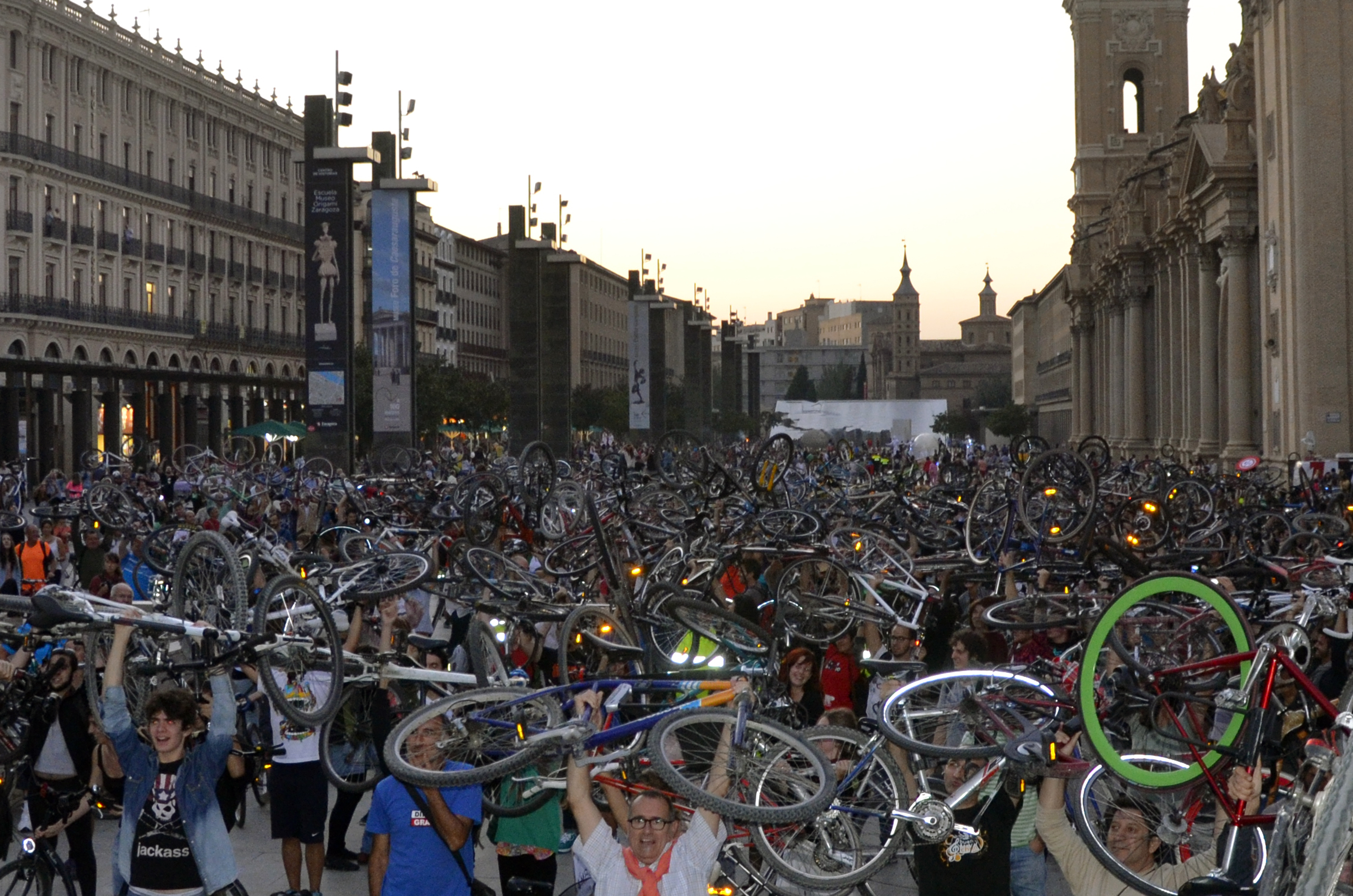 cyclistscalled by Pedalea standing for their rights -Zaragoza (Spain)